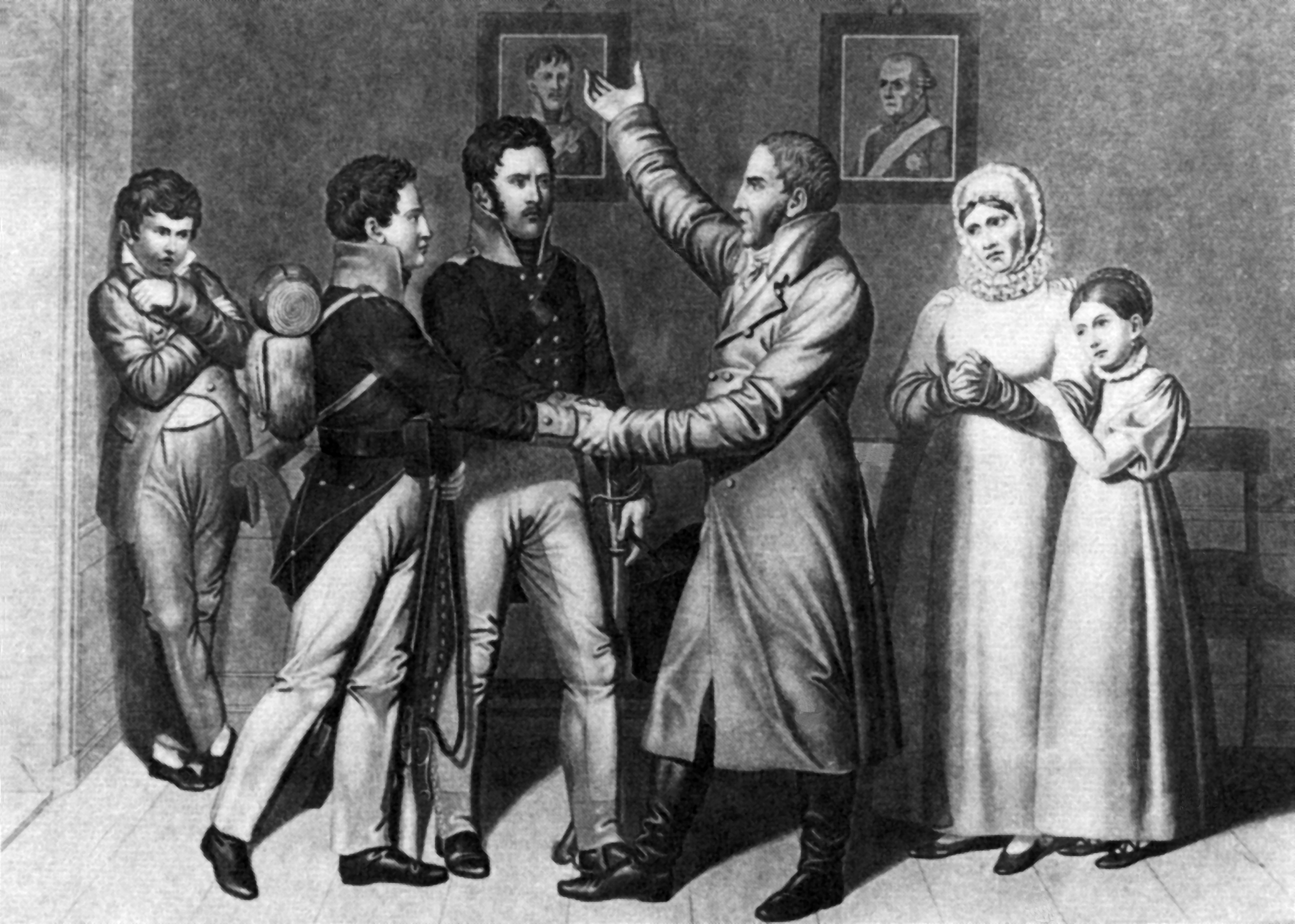 Two Volunteer Riflemen Departing from Their Parents, by Heinrich Anton Dähling (1813). Schwerin, State Museums.